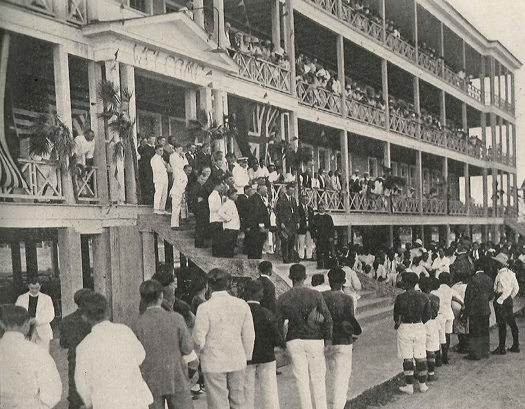 larger, png version of LindberghSJC.jpg